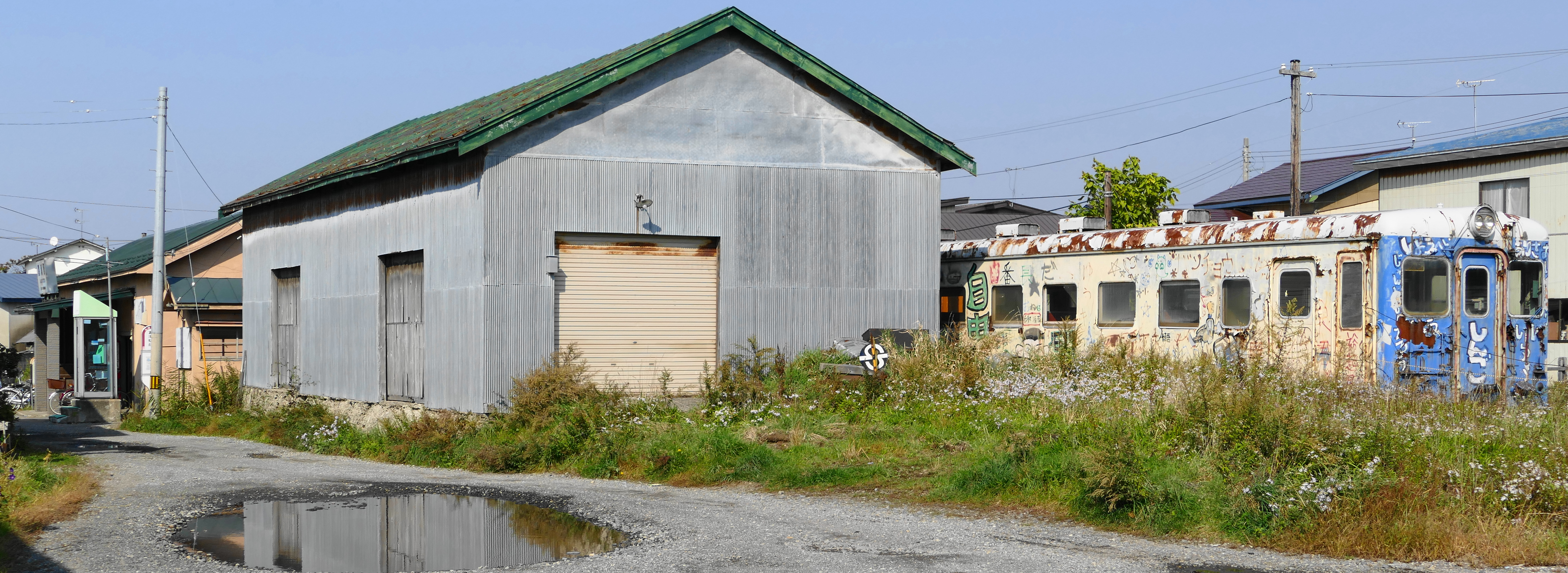 Left:Kase station,Right:Graffiti train,Aomori prefecture,Japan